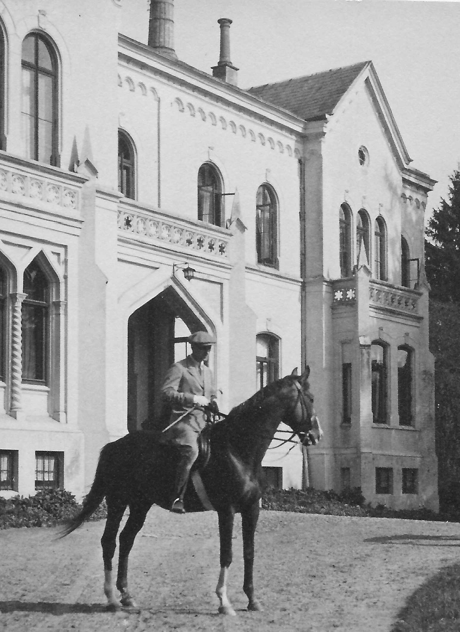 Gutshaus Dudendorf. Es sind die ursprünglichen Fassadenstrukturen der Tudorgotik zu erkennen - ca. 1900